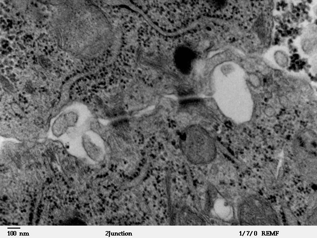 Transmission electron microscope image showing lateral membranes of two cells at the site of two desmosomes. The intermediate filaments, associated with the two desmosomes are visible in this image. JEOL 100CX TEM